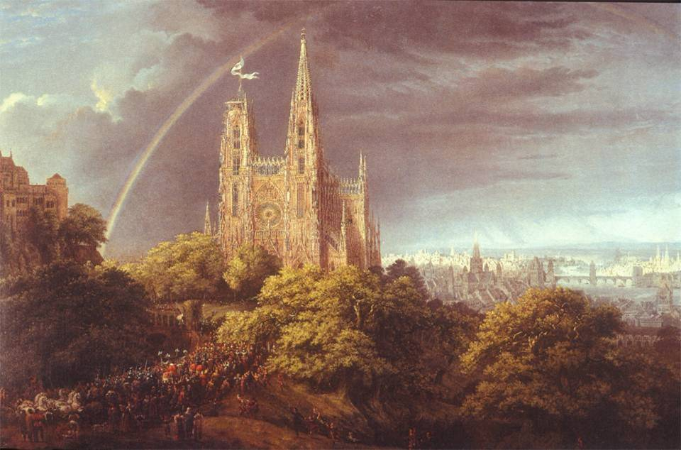 Schinkel's picture